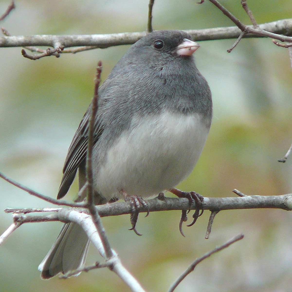 A Dark-eyed Junco subspecies - the Slate-colored Junco (Junco hyemalis hyemalis).Photo taken with a Panasonic Lumix DMC-FZ50 in Johnston County, North Carolina, USA.